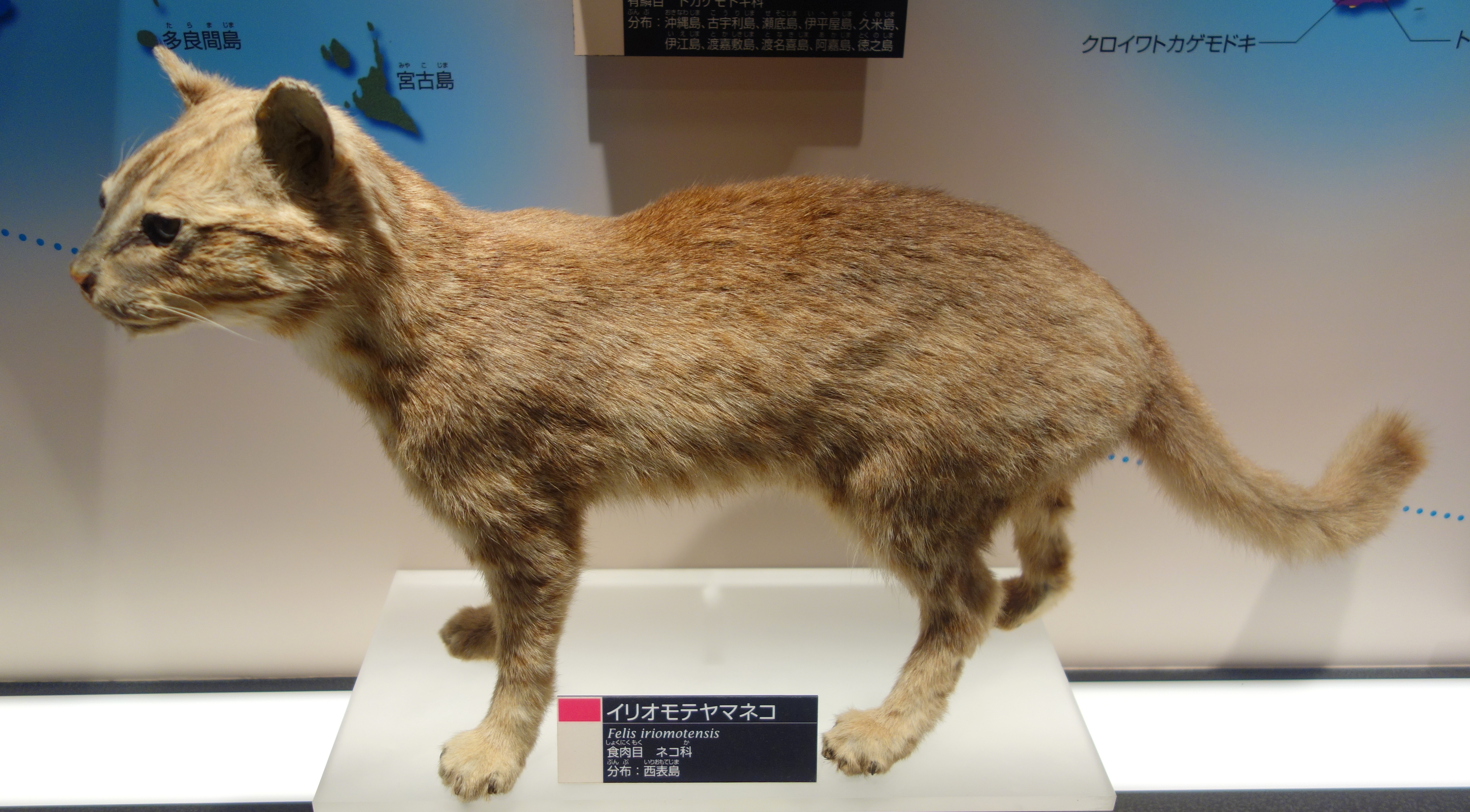 Exhibit in the National Museum of Nature and Science, Tokyo, Japan.